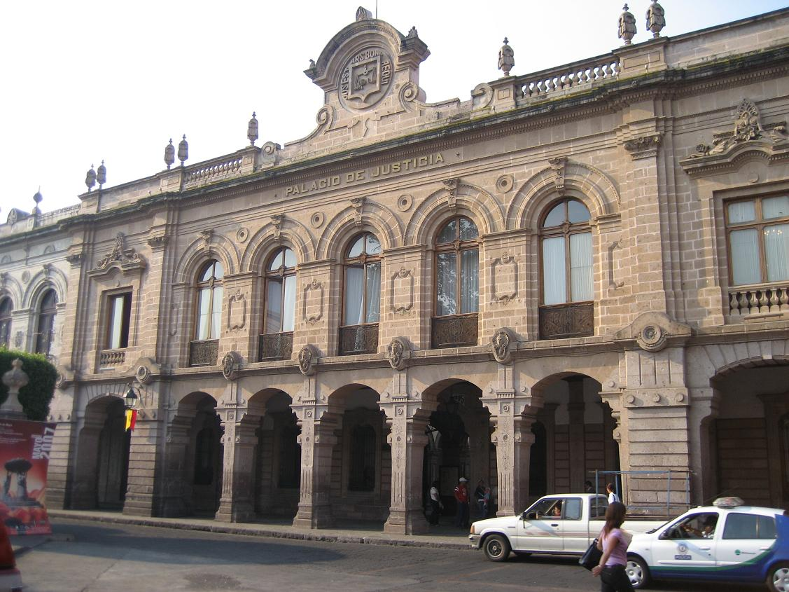 Former Palace of Justice in Morelia